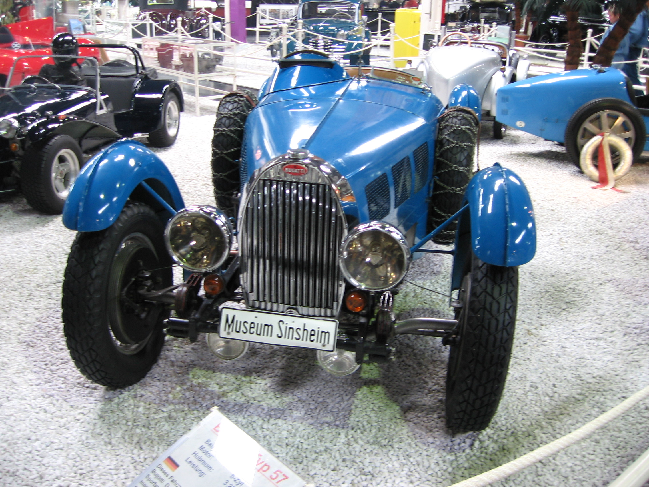 The frontside of a Bugatti Type 57C racecar at the Auto- und Technikmuseum Sinsheim / Germany. Picture taken in may 2006 by Christian Kath (me).